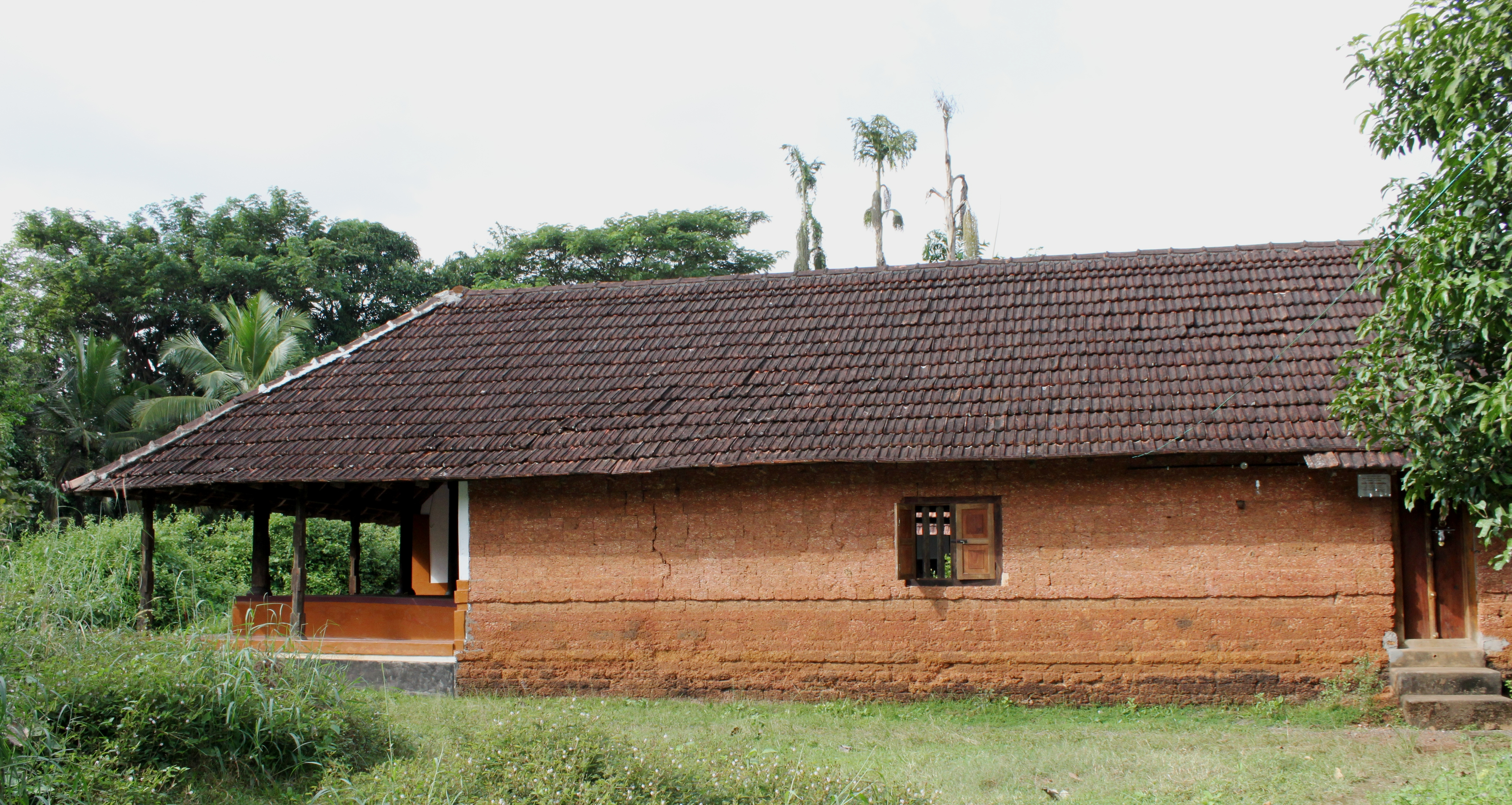 The Bhagavathi temple which was created by Agnihothri